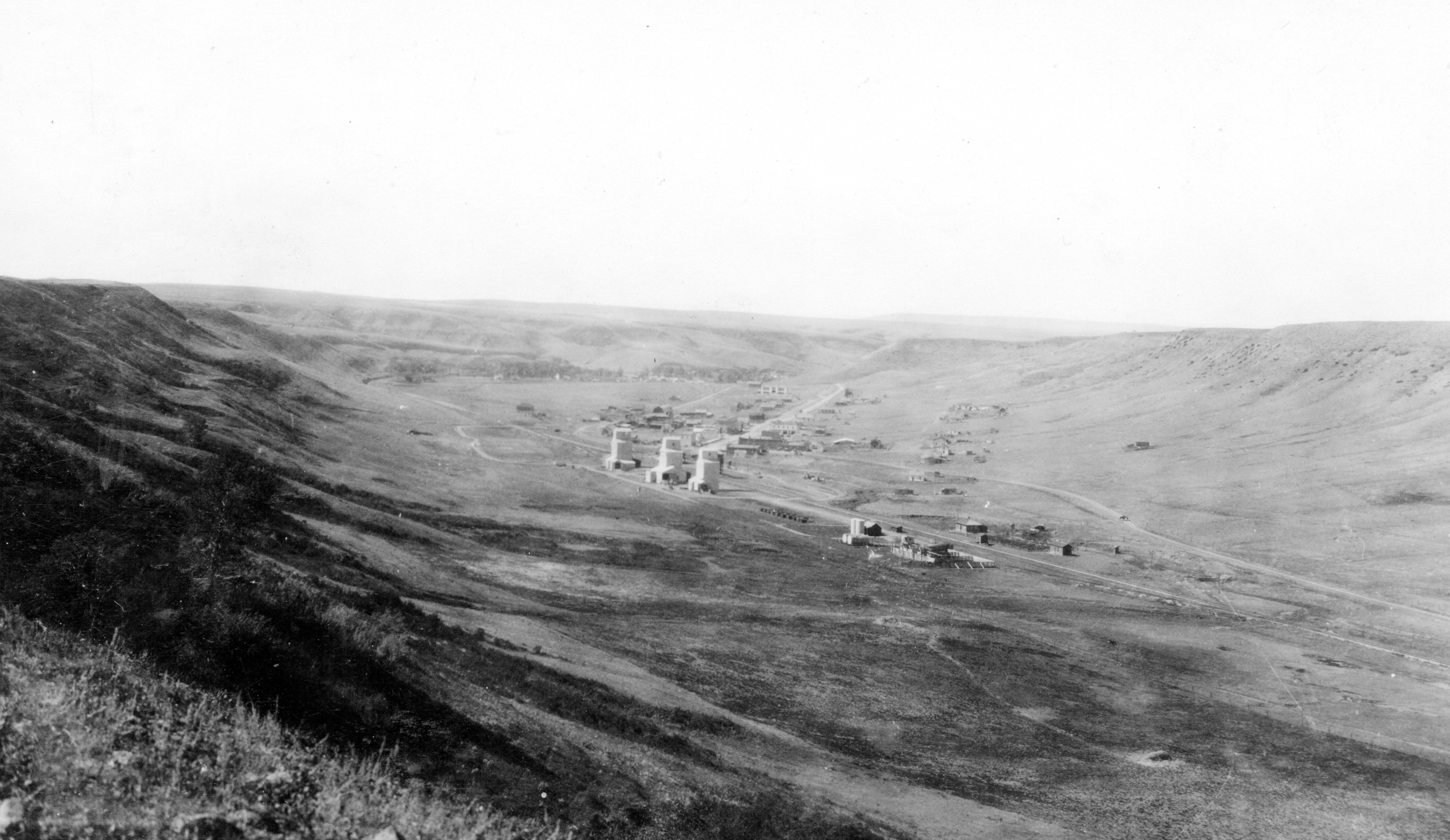 The Shonkin Sag near Highwood, Montana, in September 1920. The Sag is a former river channel near the north base of the Highwood Mountains. It was eroded by the Missouri River when the river was diverted by the Keewatin ice sheet during the last ice age. The channel also served for water released by the glacial lake outburst flood created by Glacial Lake Great Falls. At the point depicted here, the Sag is 200 to 300 feet (61 to 91.5 meters) deep. The buildings in the picture are grain elevators and worker housing belonging to the Chicago, Milwaukee, St. Paul Railway, which traversed the Sag.